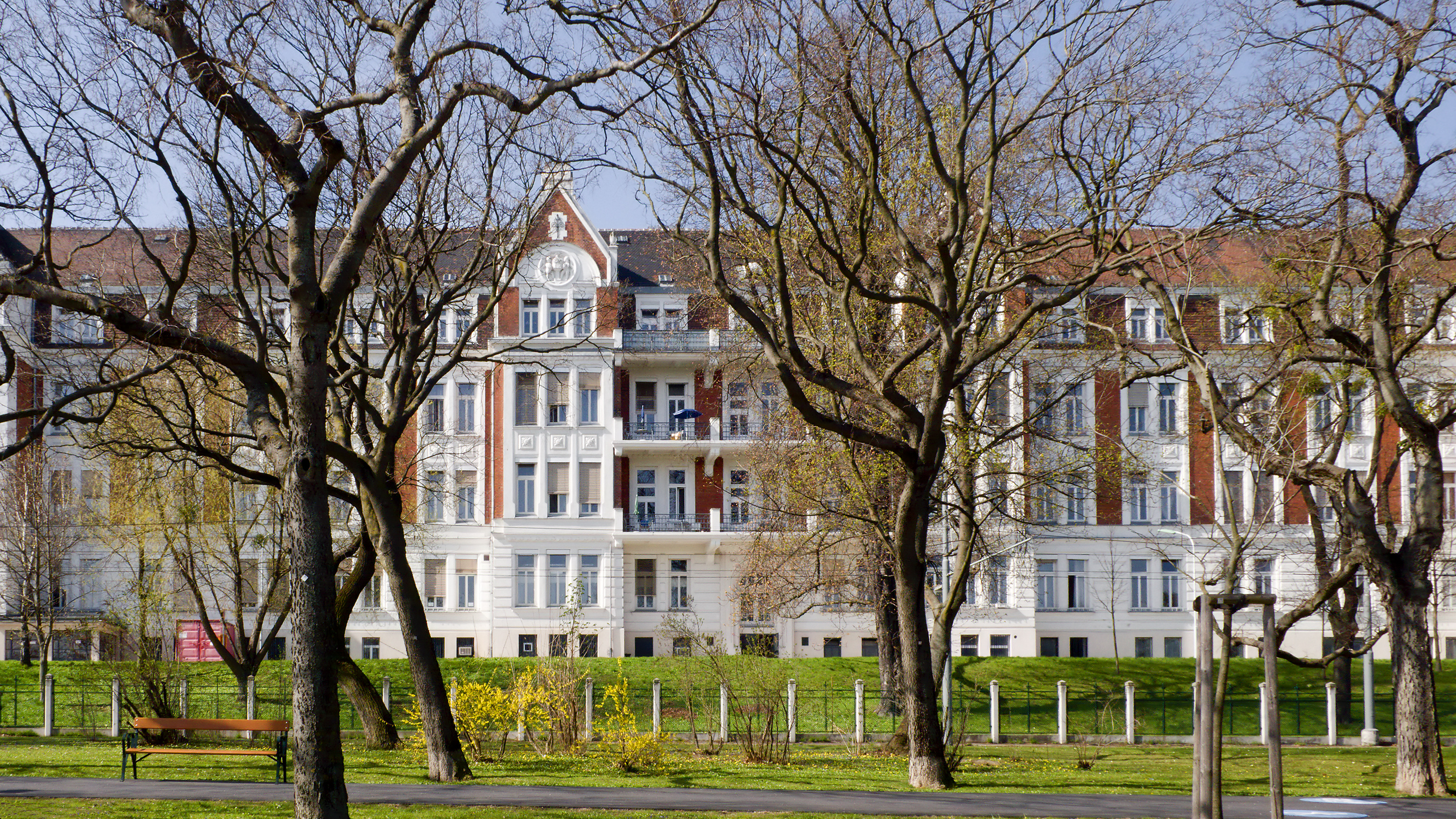 Geriatriezentrum Am Wienerwald in Vienna Hietzing